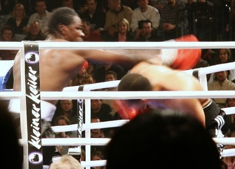 Wayne Braithwaite vs. Yoan Pablo Hernández in Sparkassen-Arena in 2008.